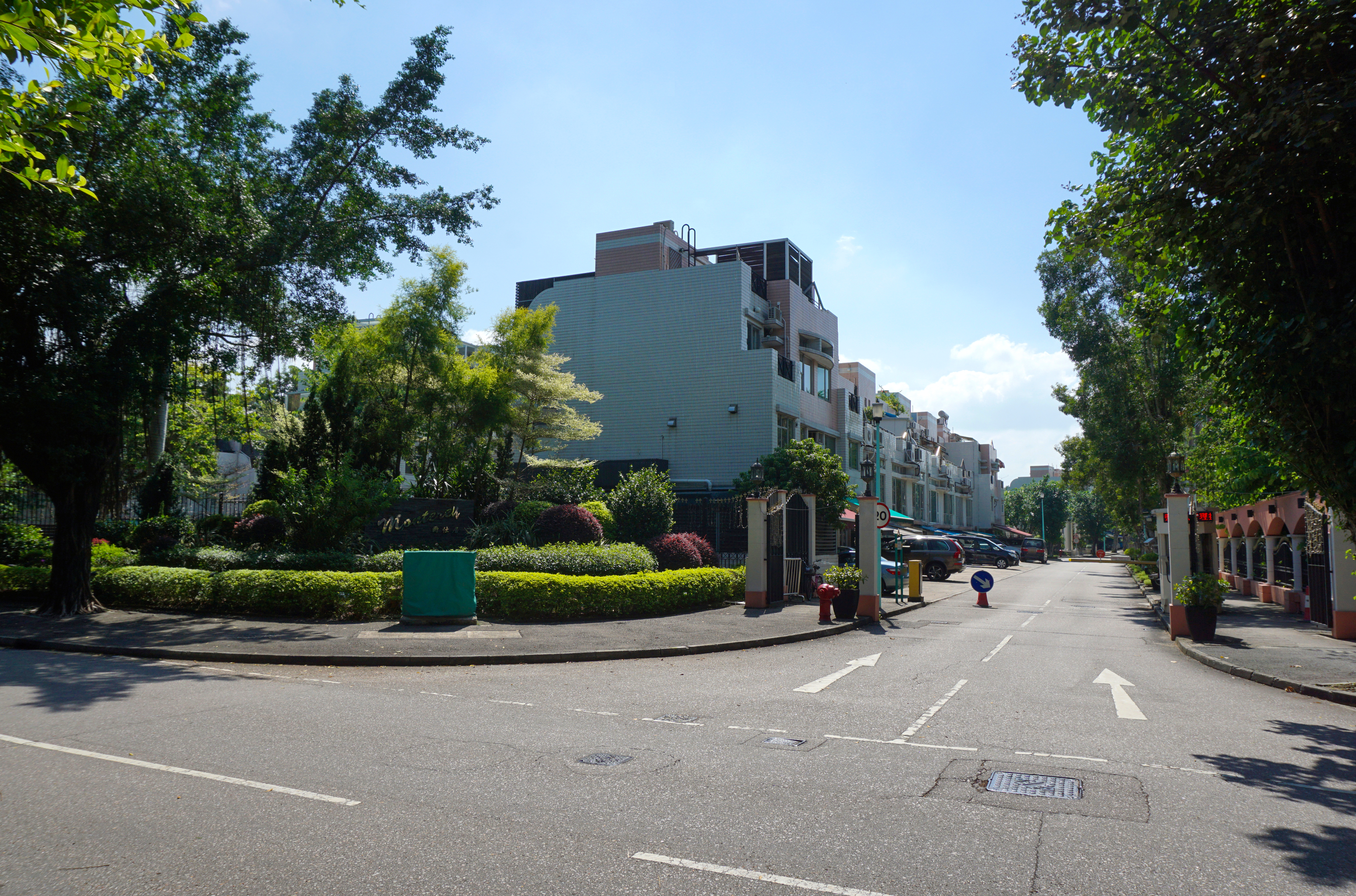 Palm Springs in Wo Shang Wai, Hong Kong.